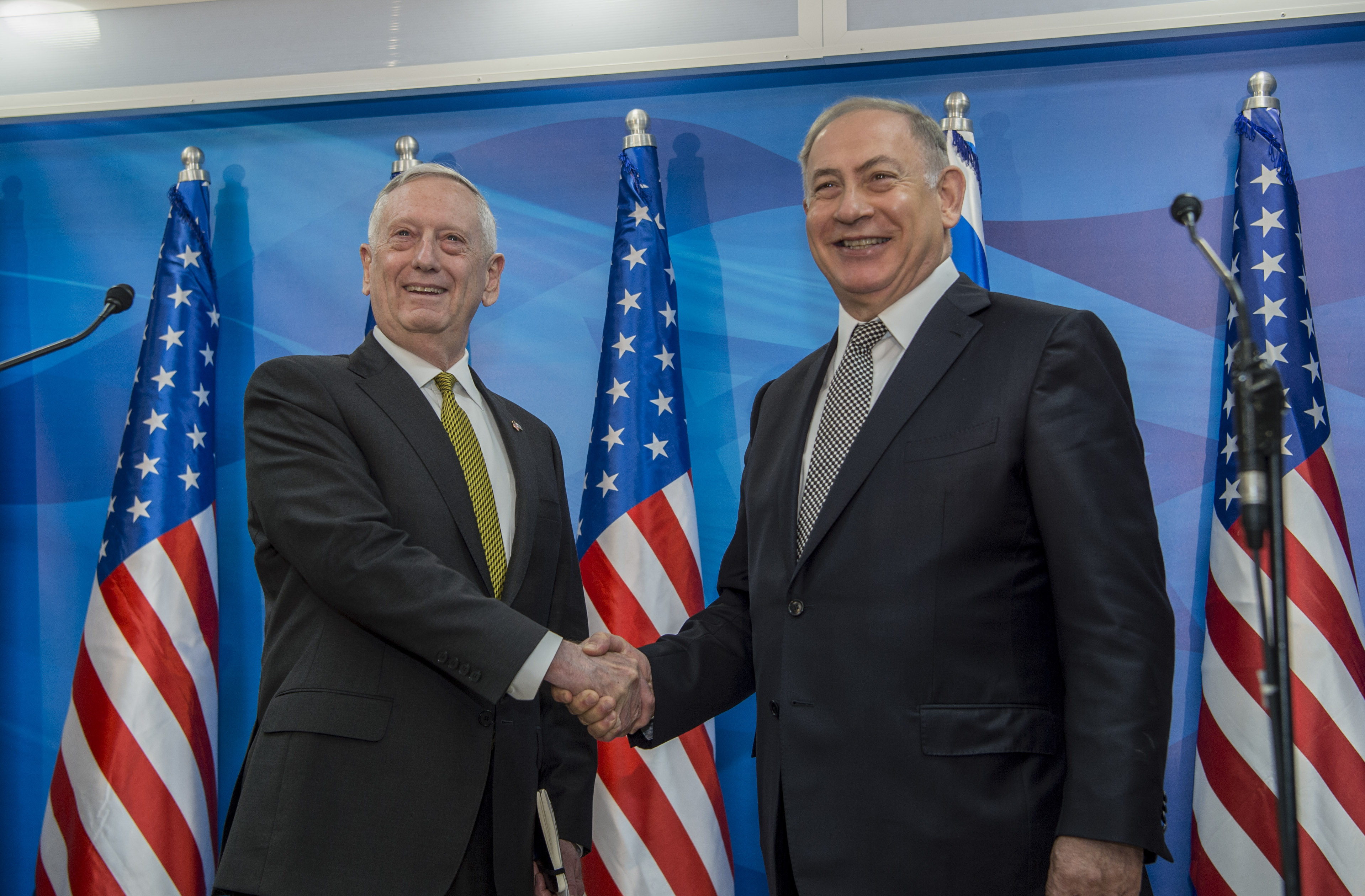 Secretary of Defense Jim Mattis meets with Israel’s Prime Minister Benjamin Netanyahu in Jerusalem, Israel, April 21, 2017. (DOD photo by U.S. Air Force Tech. Sgt. Brigitte N. Brantley)